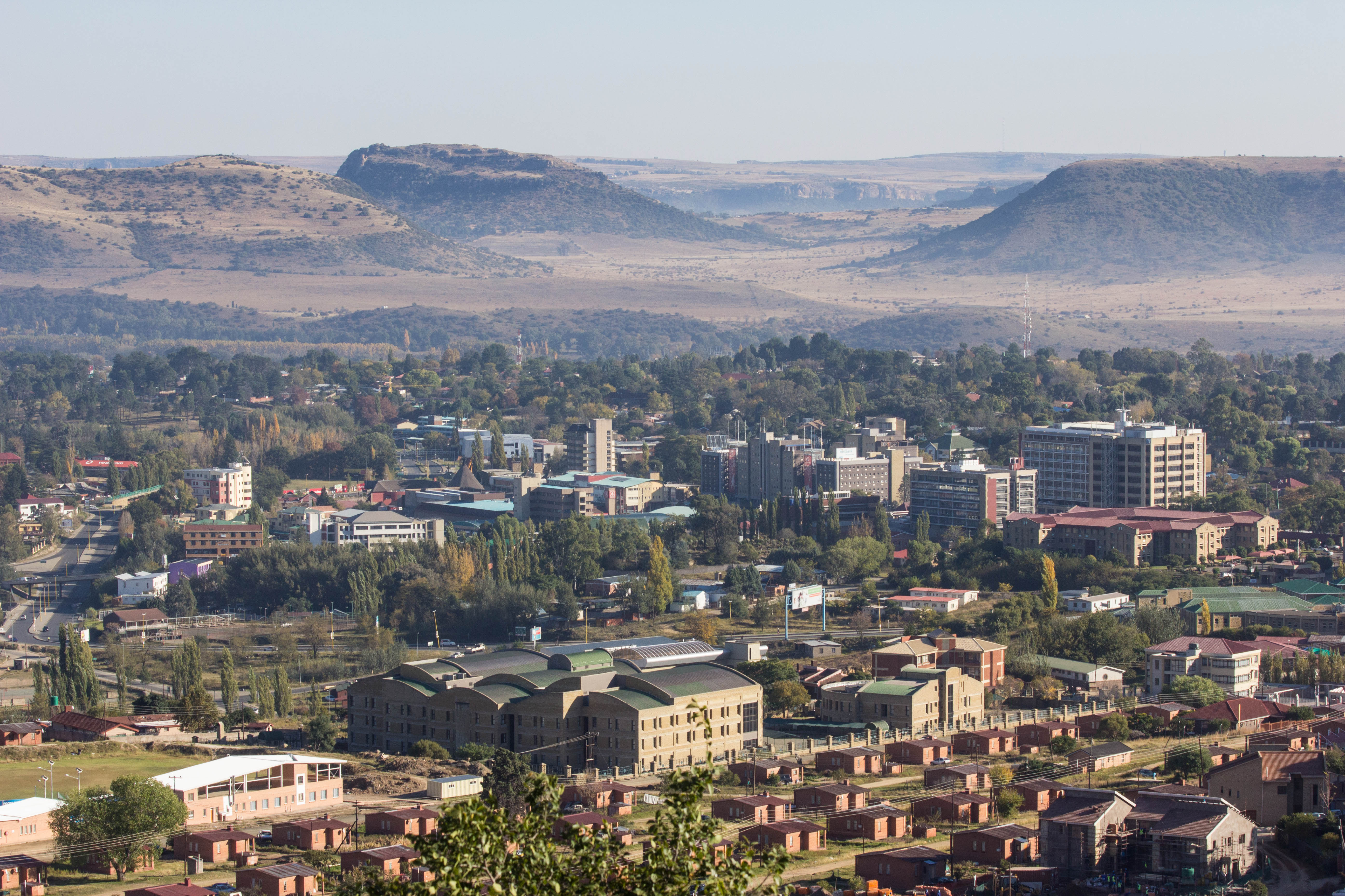 South African farmlands clearly visable across the river